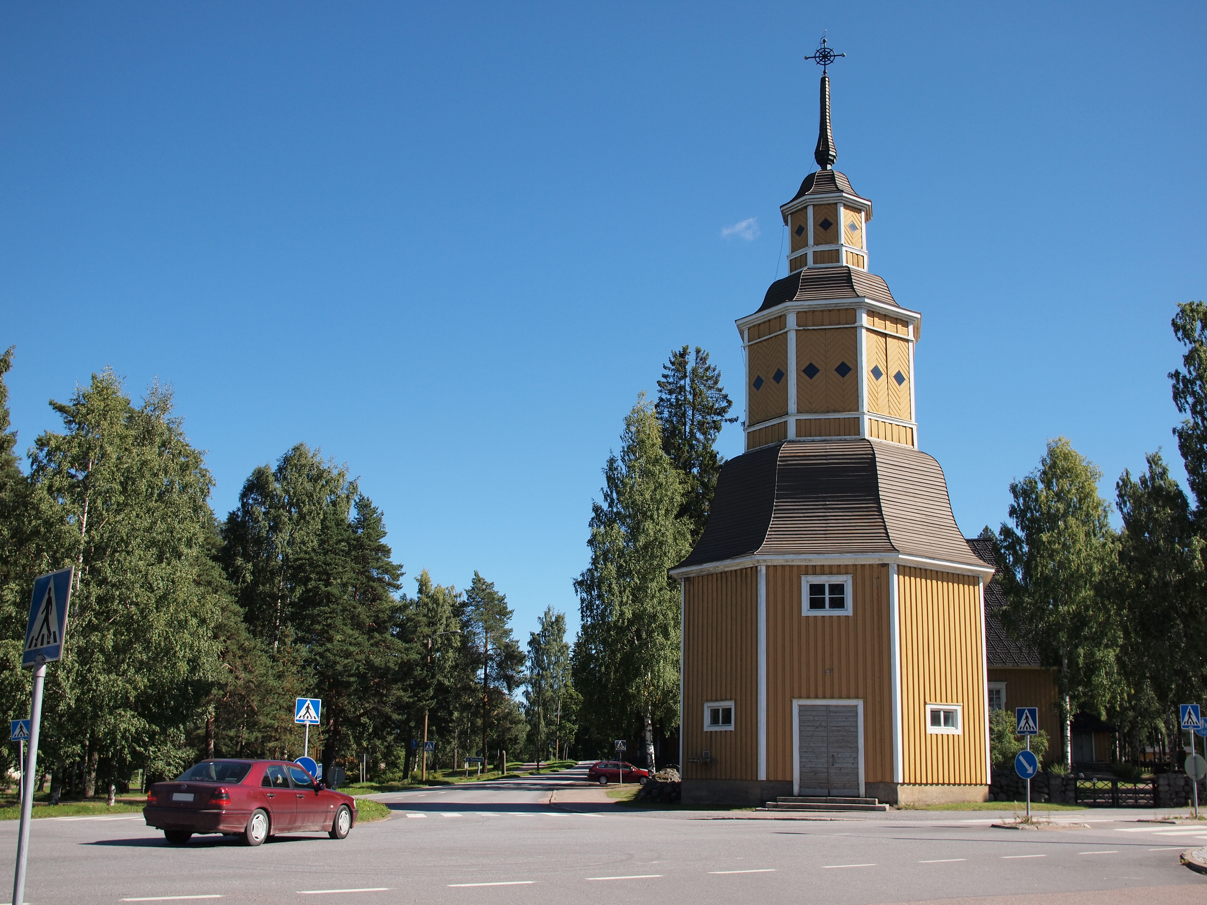 Right next to Lemi church is its belfry. It was completed in 1936 after the original, early 19th century belfry, burned down in 1918.